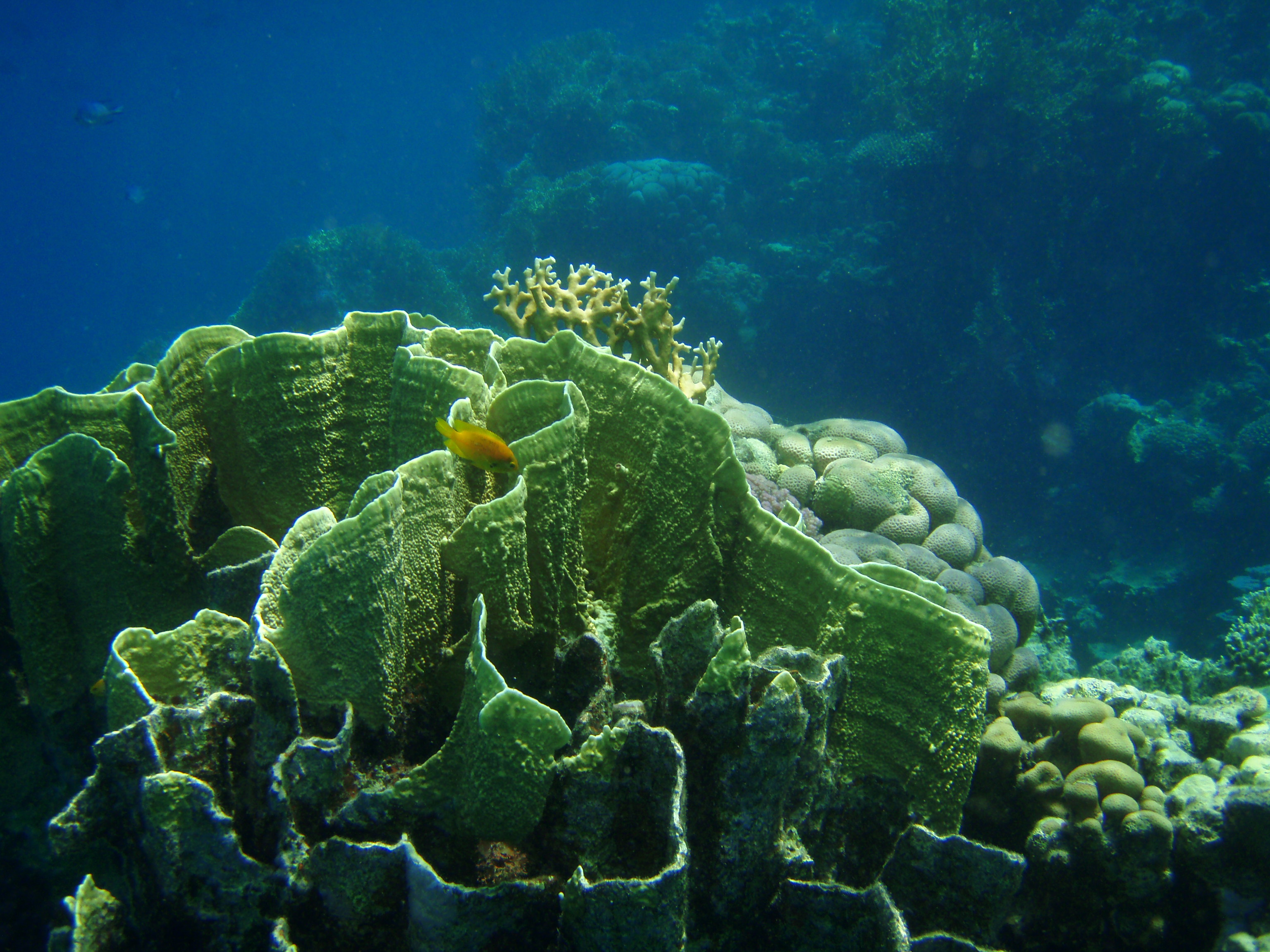 Fire coral (Millepora platyphylla) in red sea.